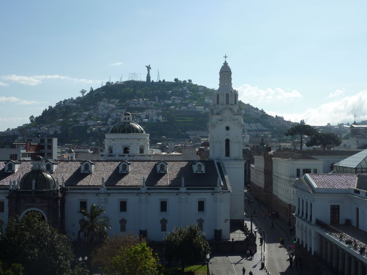 View of Quito's Cathedral with "El Panecillo" from the Plaza Grande